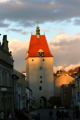 Dolní brána - Muzeum rekordů a kuriozit